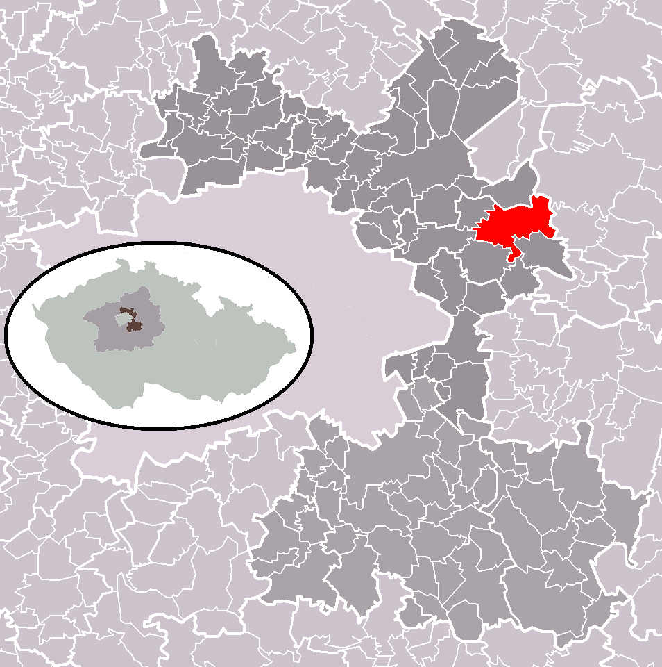 Location of Čelákovice town within Prague-East District and administrative area of Brandýs nad Labem-Stará Boleslav as a Municipality with Extended Competence.